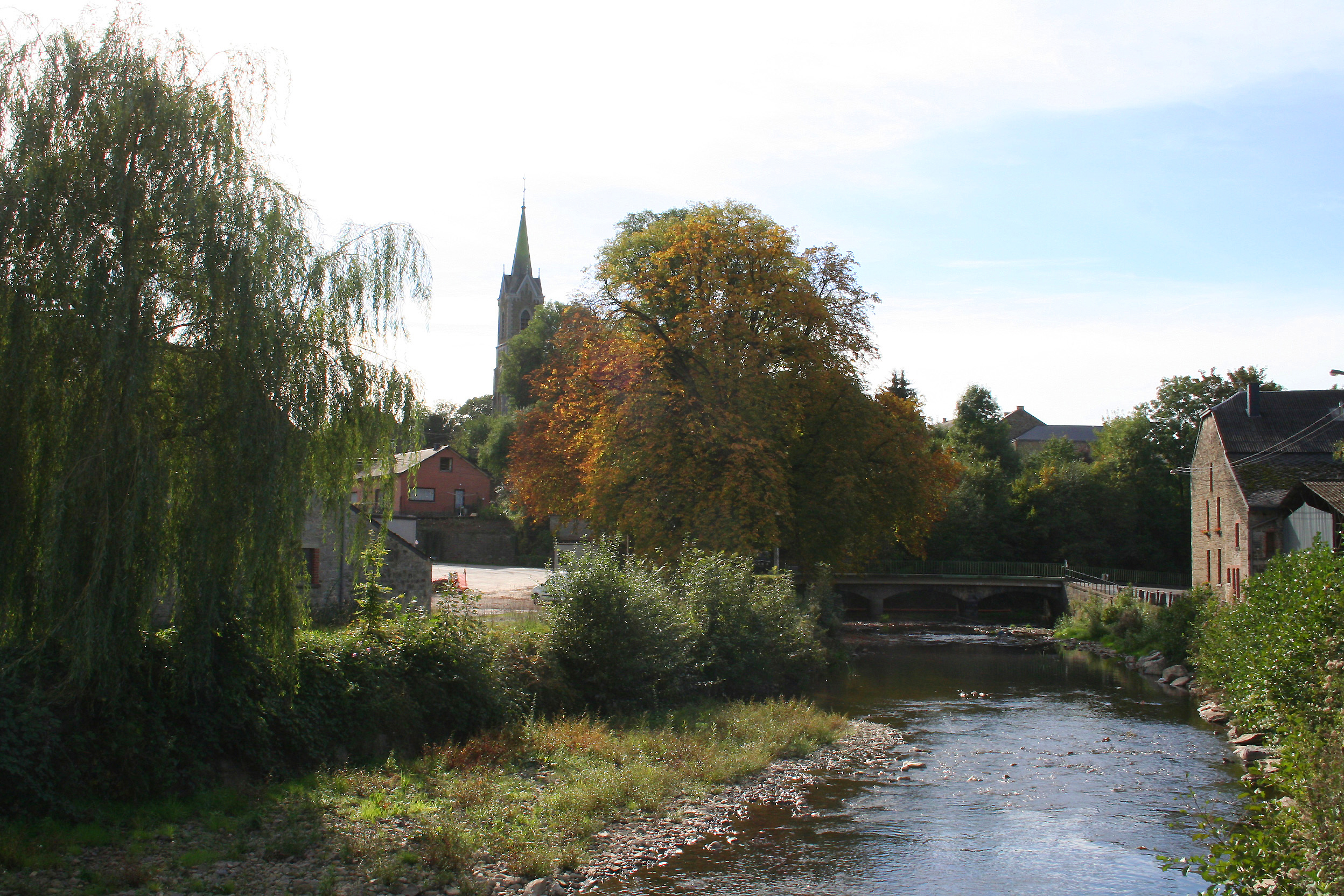 On (Q2022265) (Belgium), the Wamme (Q2150592) and the village.